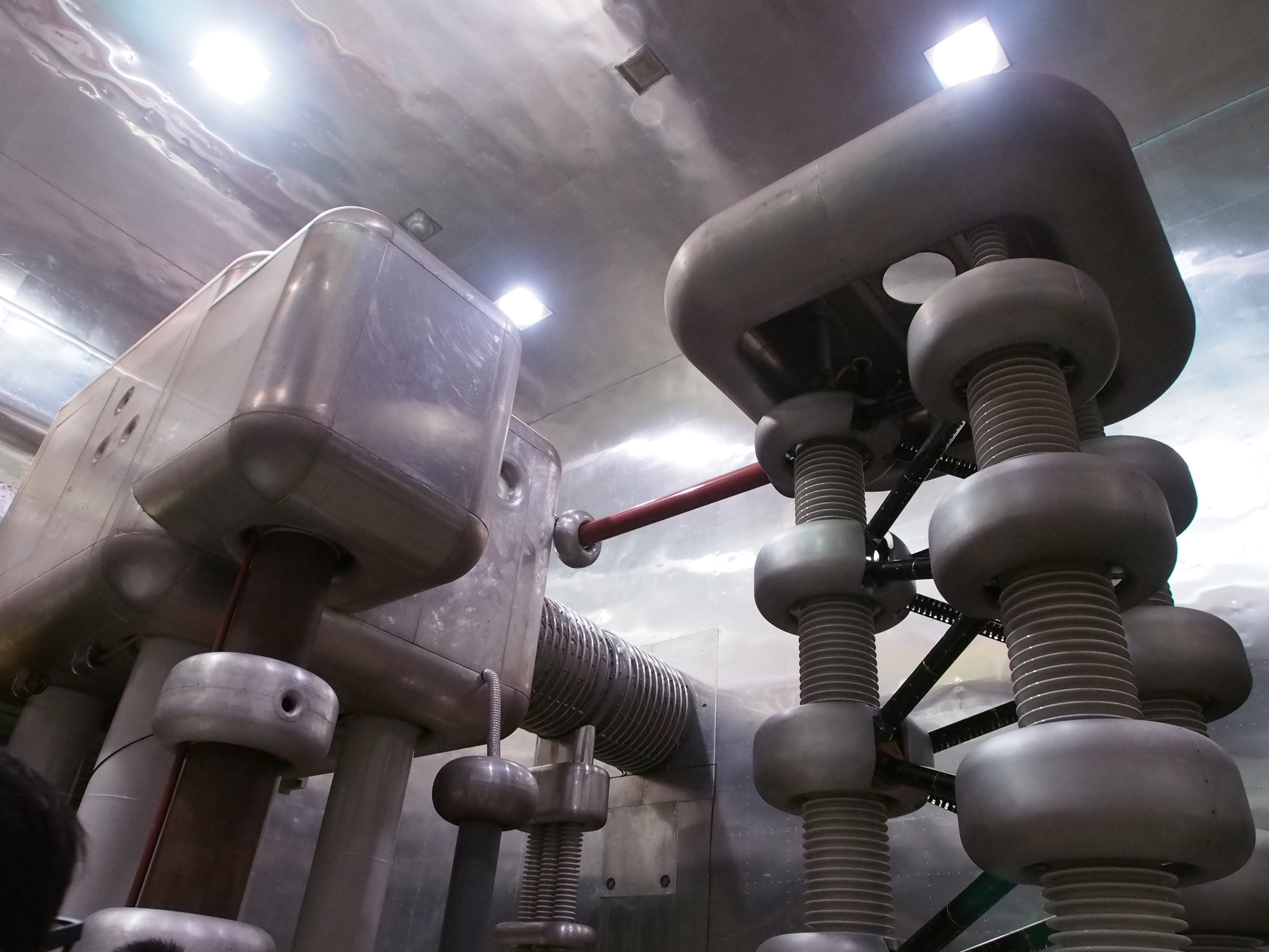 750keV Cockcroft-Walton accelerator at KEK (The High-Energy Accelerator Research Organization) in Tsukuba, Japan. It consists of the voltage multiplier (right in this photo) and the ion source (left). Photographed on Open House day.